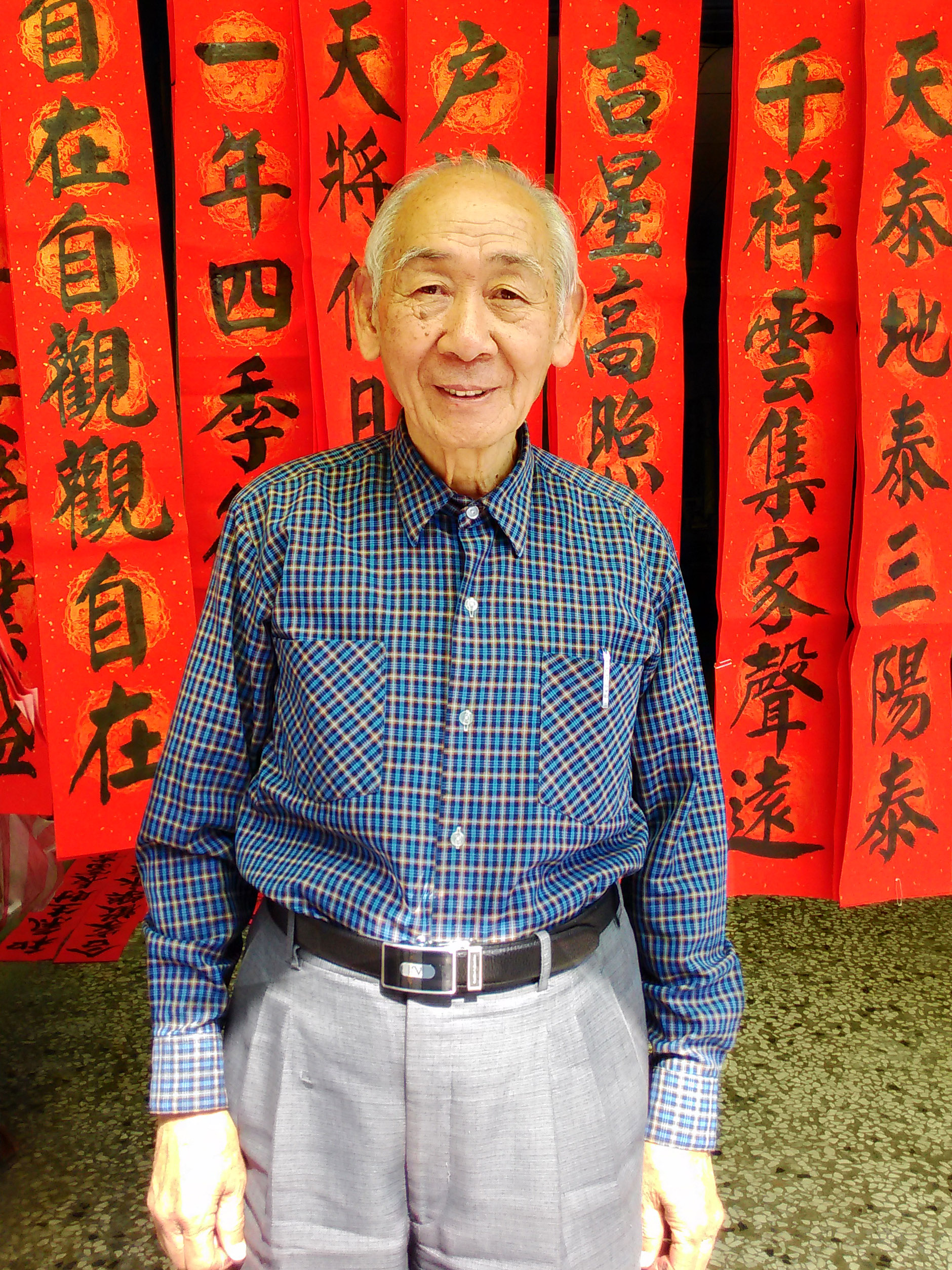 曹作清，民國一百零四年（2015年）攝於高雄鳳山。